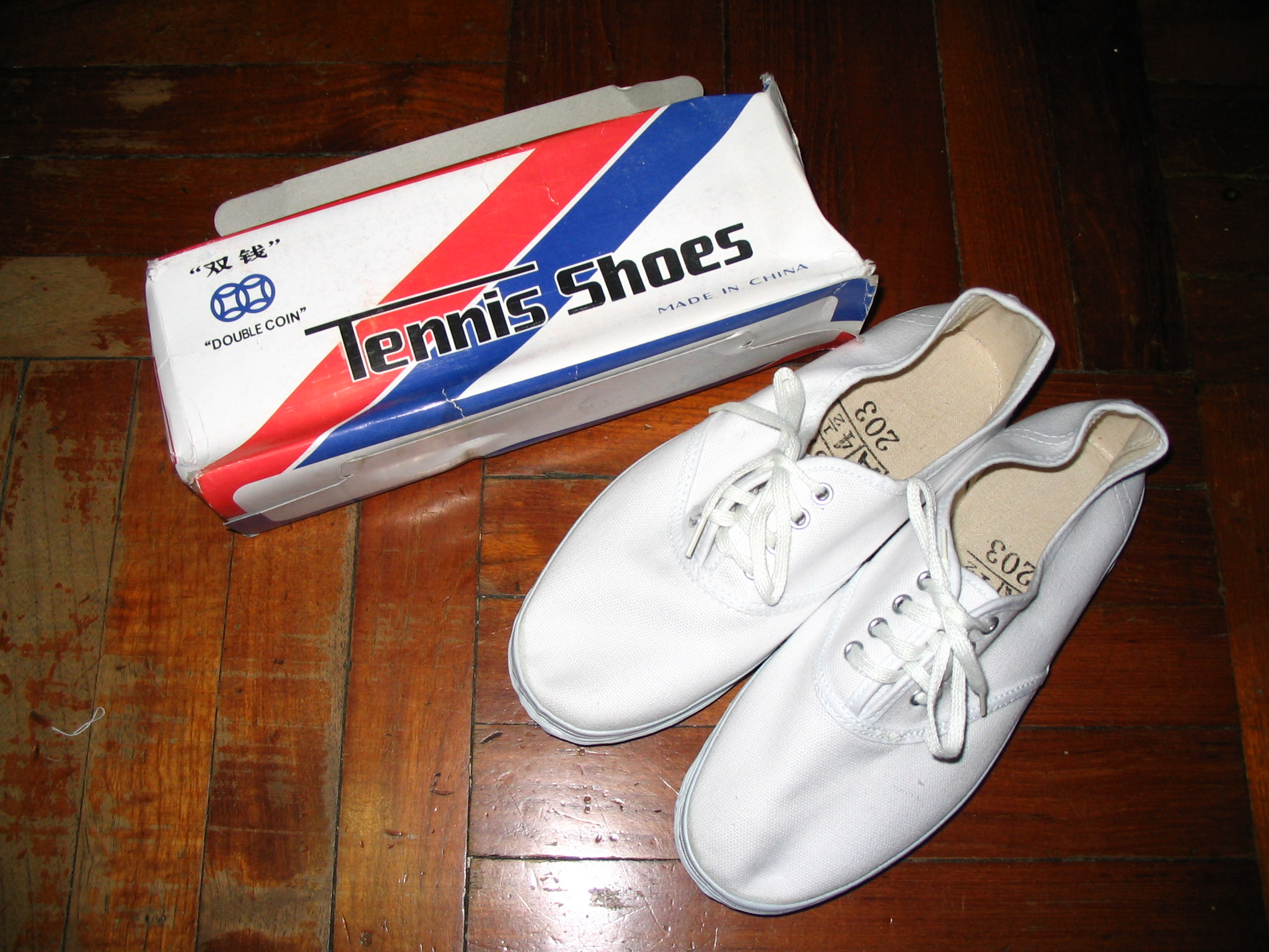 A pair of extra cheap "tennis shoes" made in China, aka "lancelet"